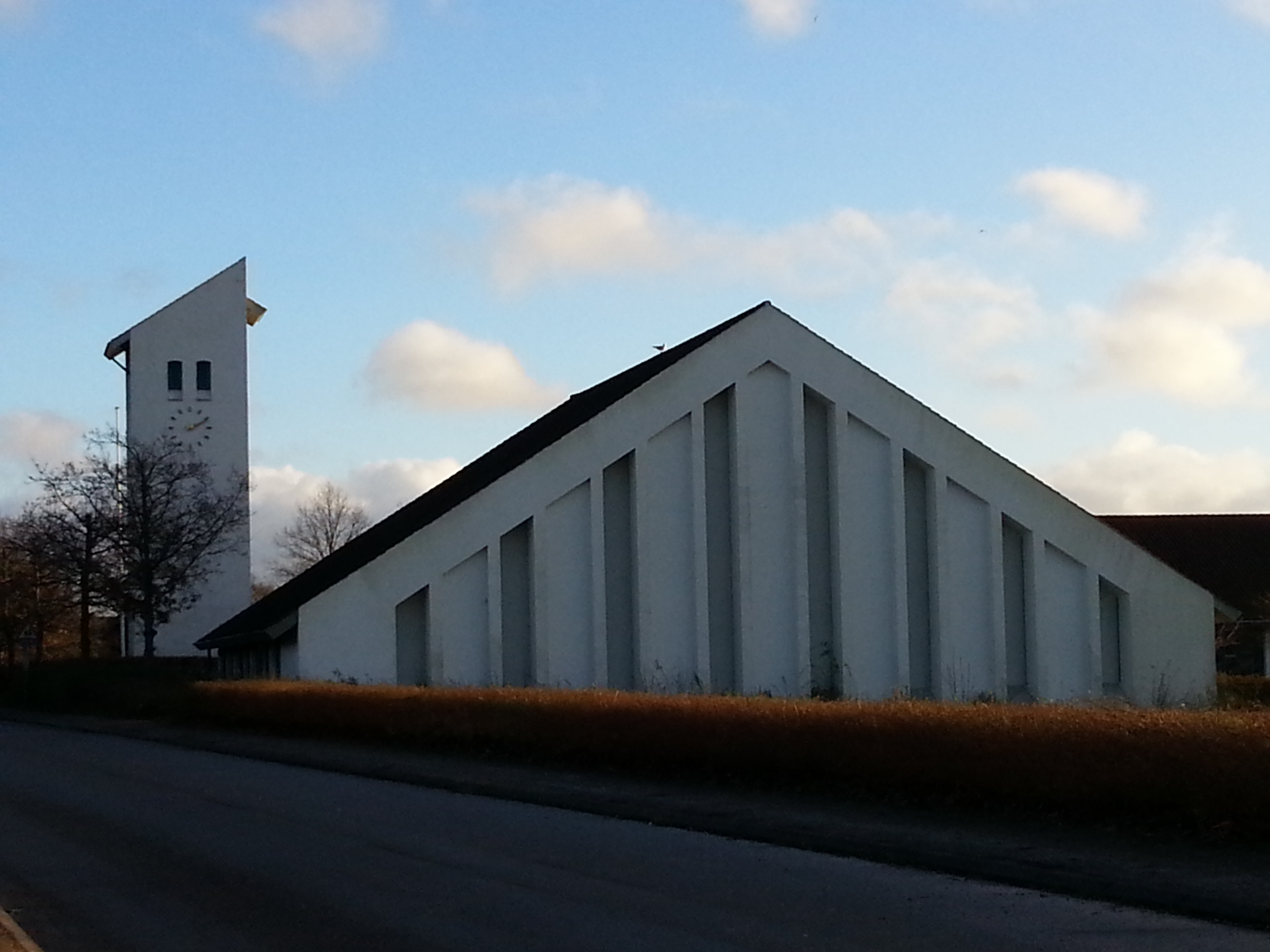 Mørdrup Church in Espergærde 2014